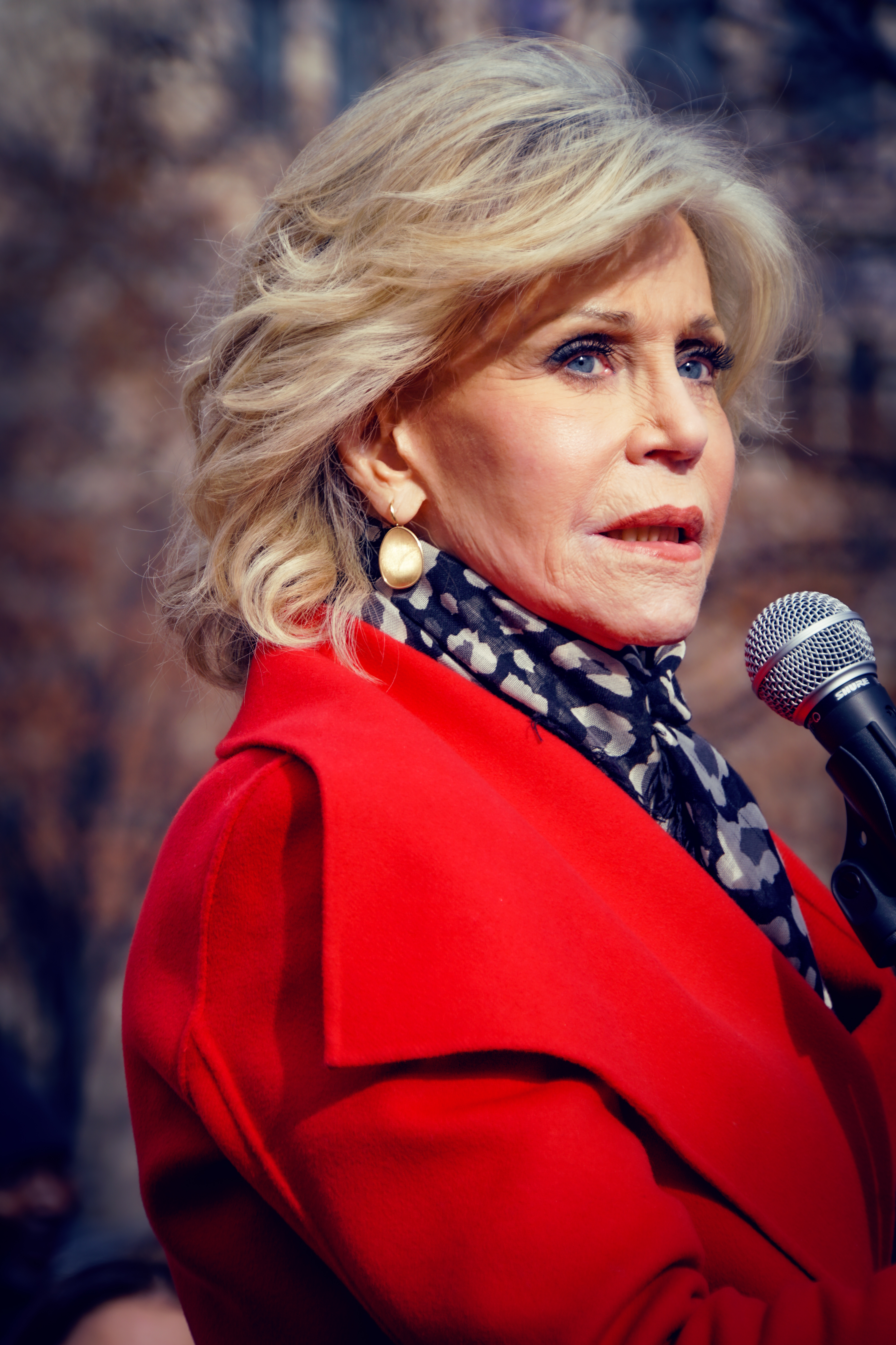 "On December 6th, we’re going to shut down business-as-usual for the financial institutions that profit off of the climate crisis and immigrant detention. Meet us at 11am in Franklin Square (14th St. and I St. NW, Washington, DC 20005) for a rally featuring Jane Fonda and Fire Drill Fridays along with Saket Soni, the Executive Director of the National Guestworker Alliance, GreenFaith, the Francisican Action Network and other climate, faith and migrant justice organizers."